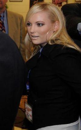 Fred and John share a private conversation